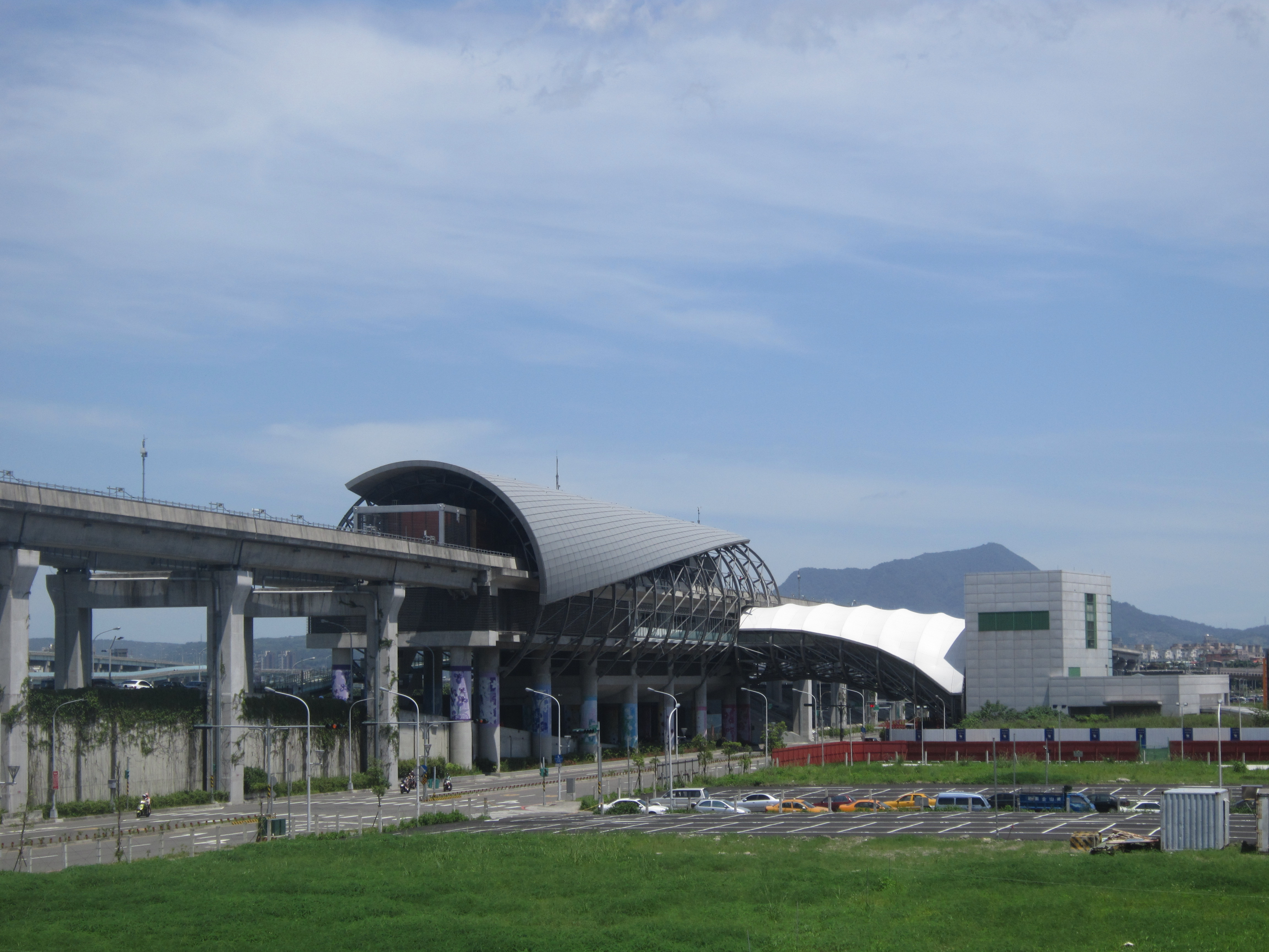 Taoyuan_MRT_A2_Sanchong_Station2